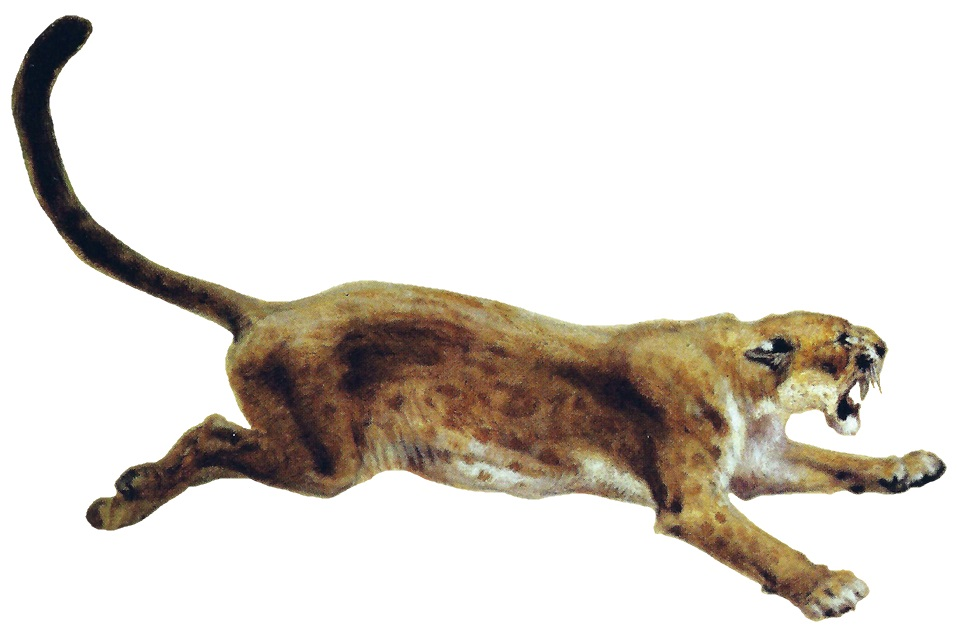 Dinictis.